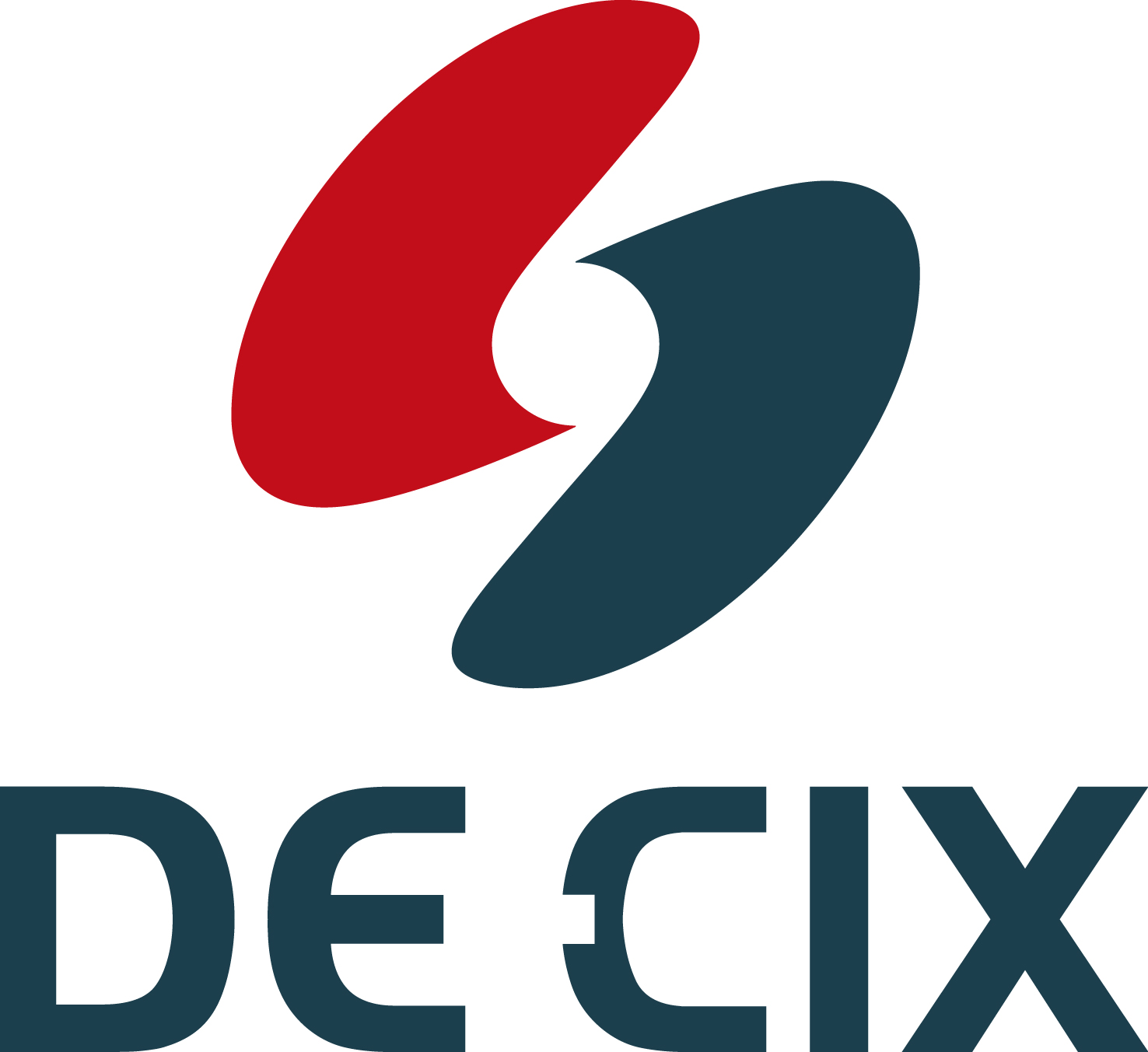 DE-CIX Logo